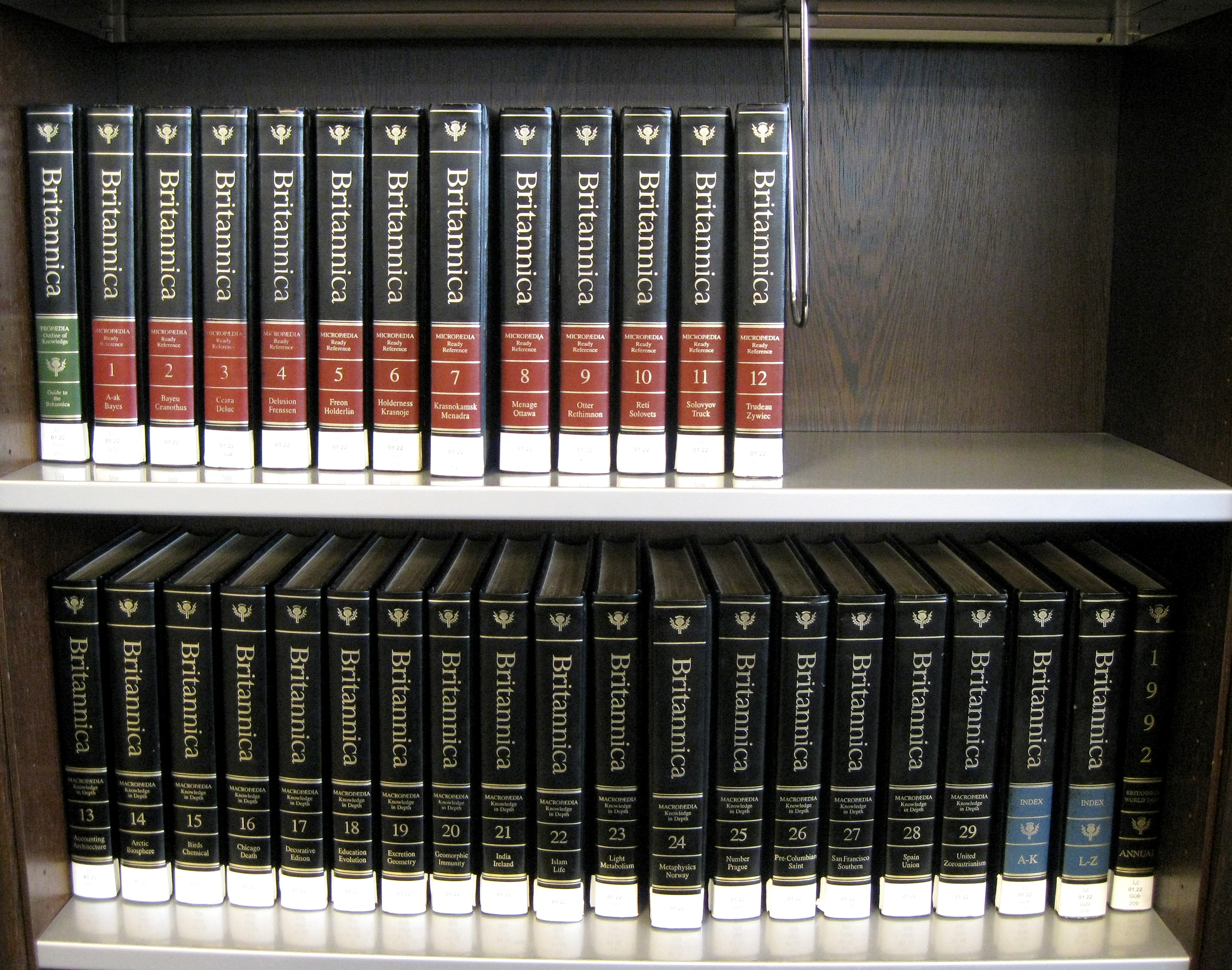 University library of Nijmegen: Encyclopædia Britannica